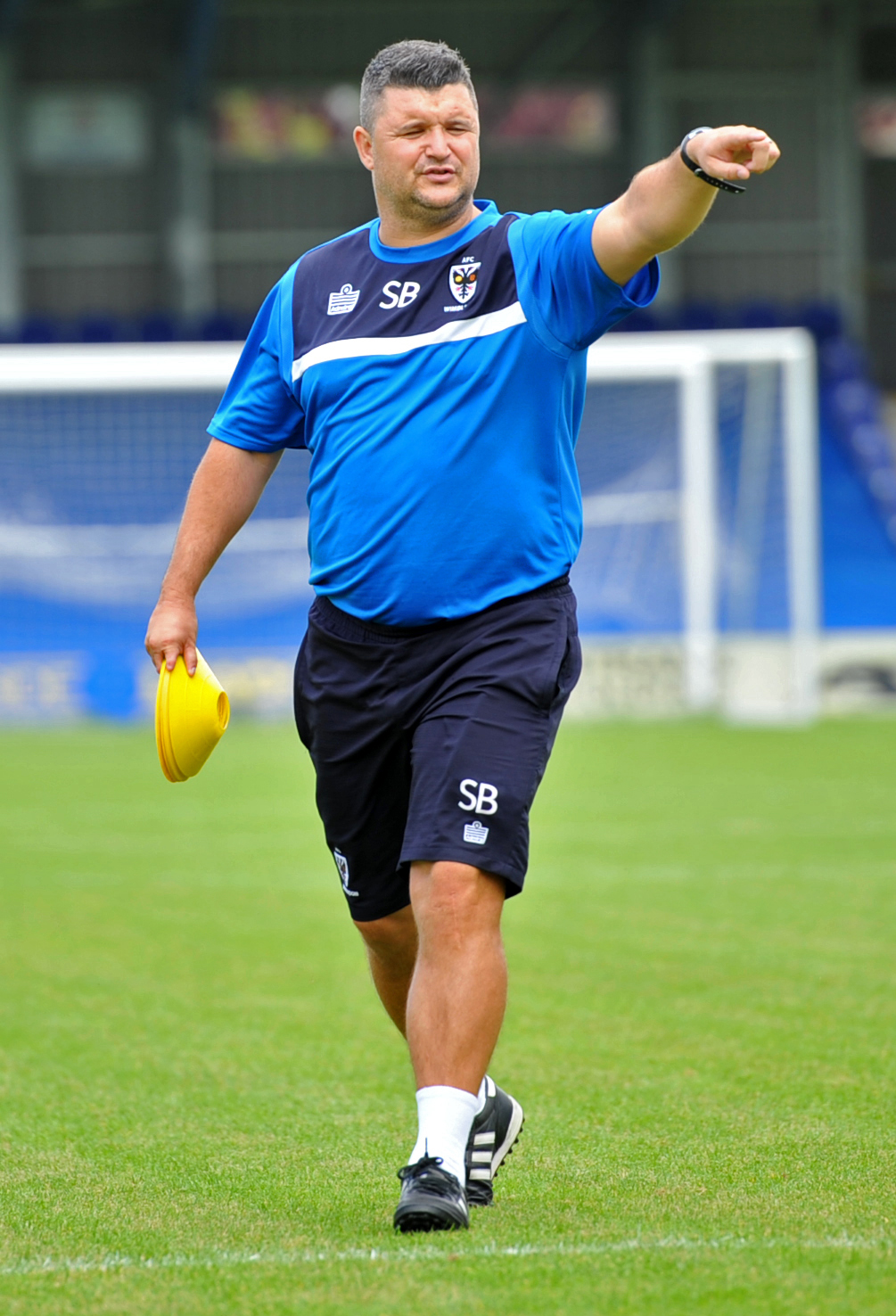 AFC Wimbledon players train during the club's open day at The Cherry Red Records Stadium, 4 August 2015